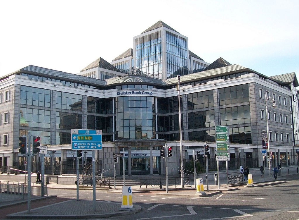 The Ulster Bank Group HQ, George's Quay Plaza, Dublin. This view is taken from the junction with Moss Street.